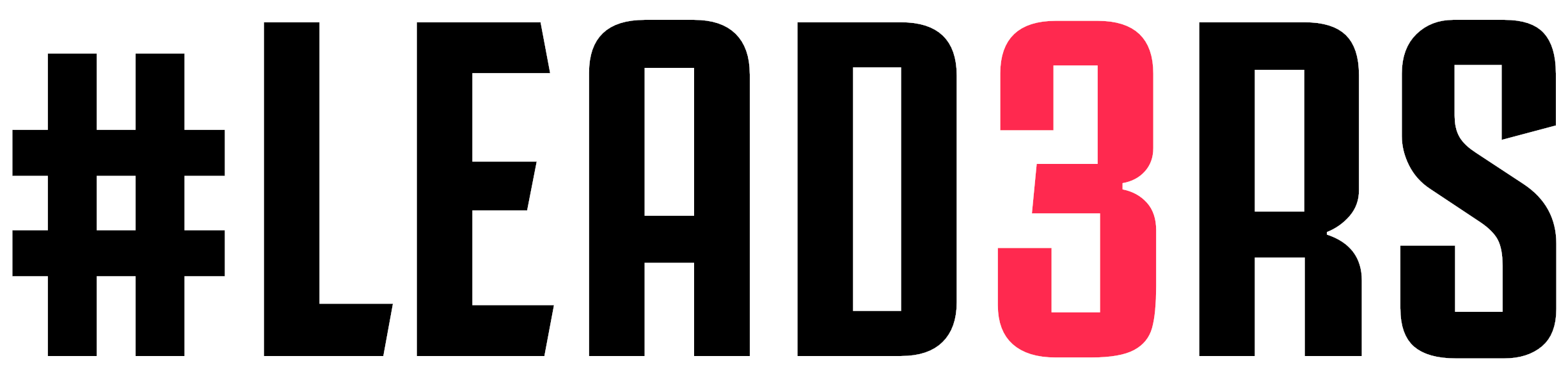 Hashtag #LEAD3RS for the 3rd Italian Women's Serie A title won in-a-row by Juventus F.C. Women in the 2019–20 season.